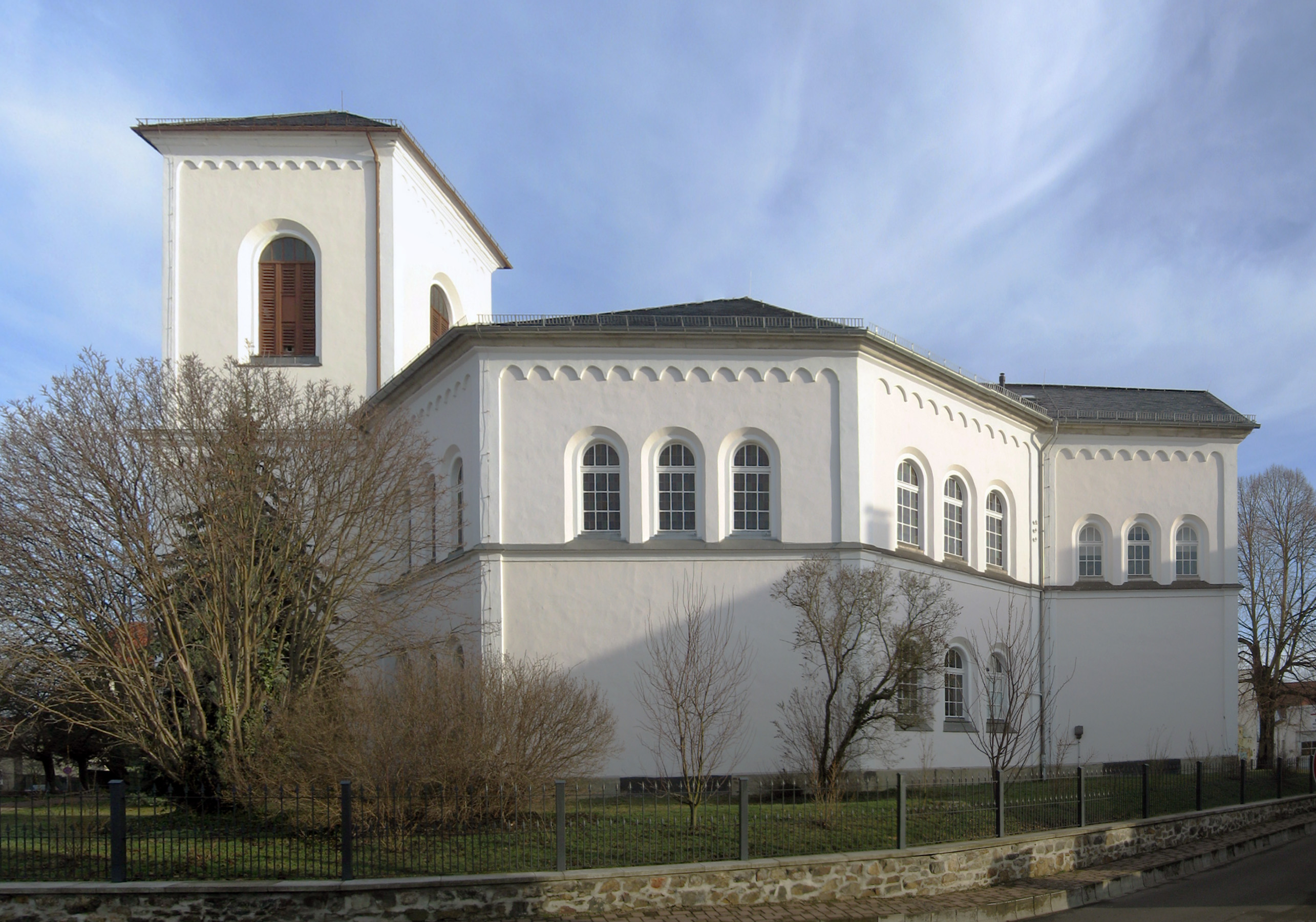 Hope Church Knauthain, Seumestrasse 129